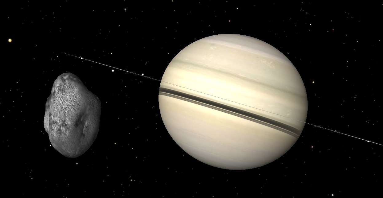 Artistic image of Polydeuces.